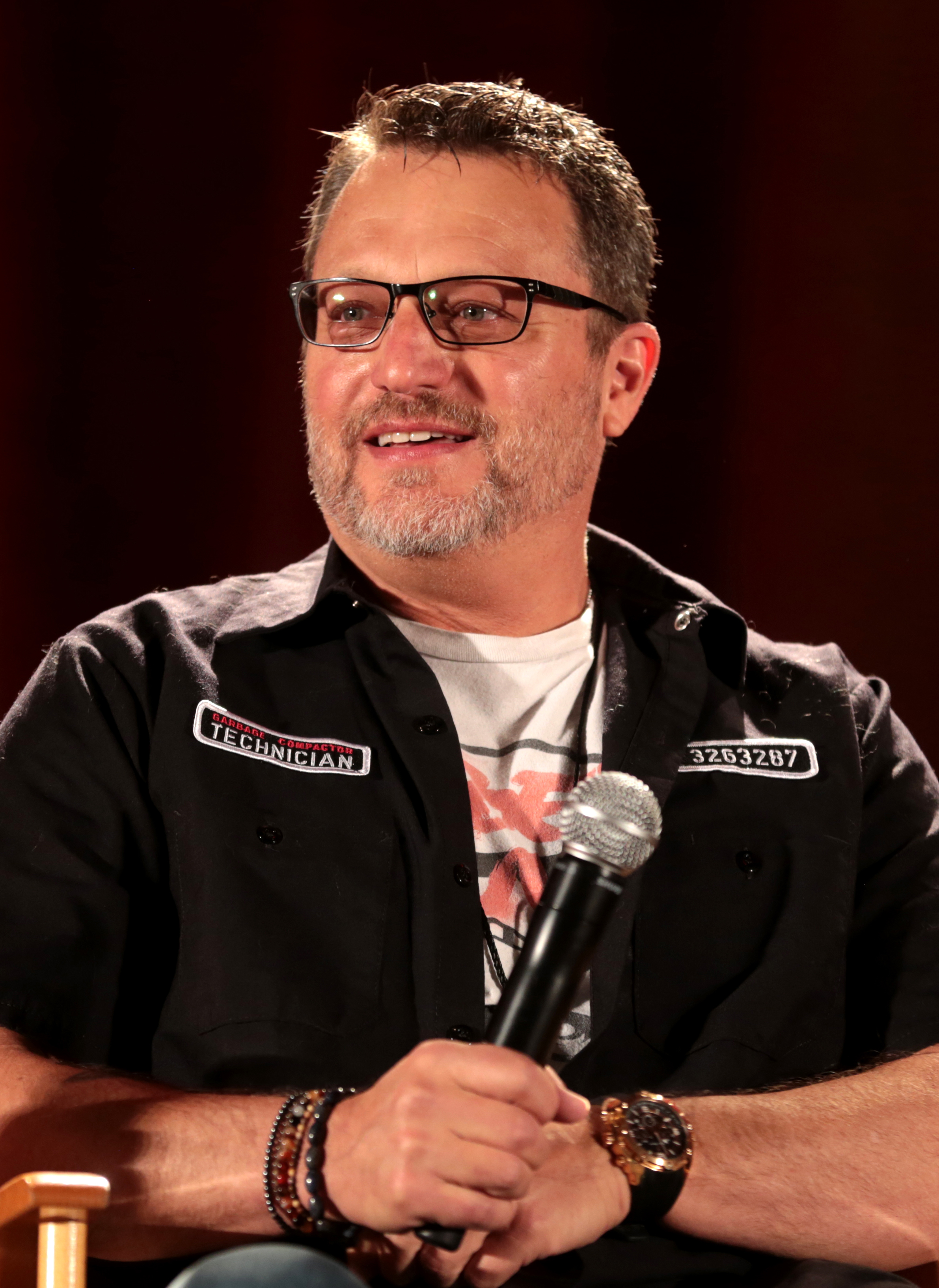 Steve Blum speaking at the 2018 Phoenix Comic Fest in Phoenix, Arizona.